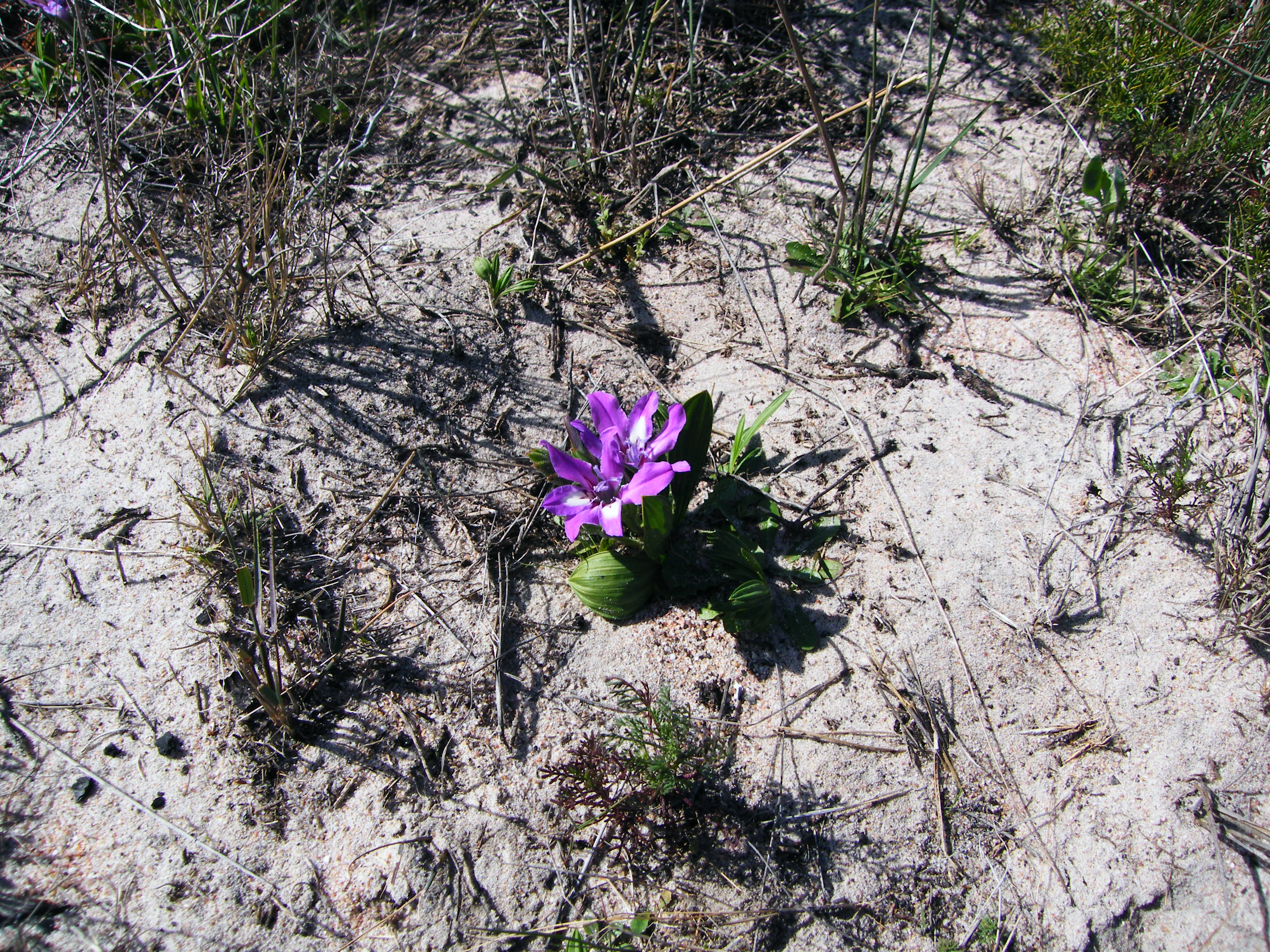 Babiana nana ssp. nana